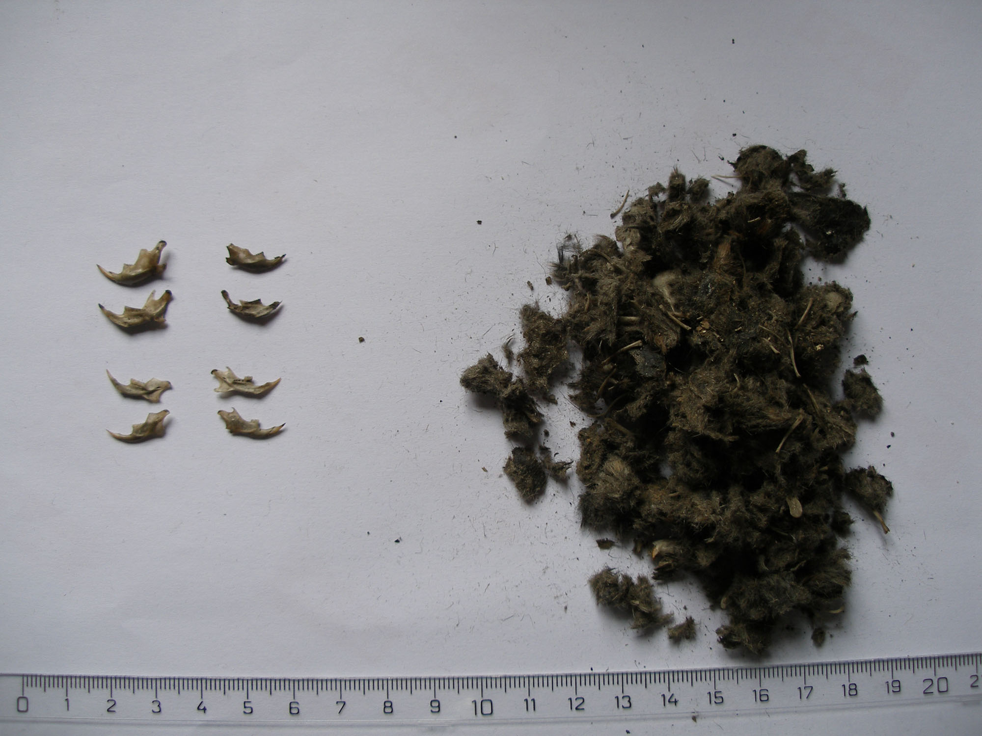 Pelett